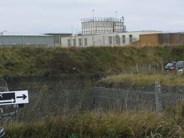 Part of the immigration removal centre on Western Heights Formerly the borstal but now run by as a removal centre for illegal immigrants.